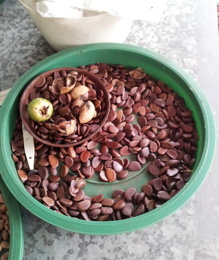 Diospyros egrettarum fruit and seeds - Ile aux Aigrettes